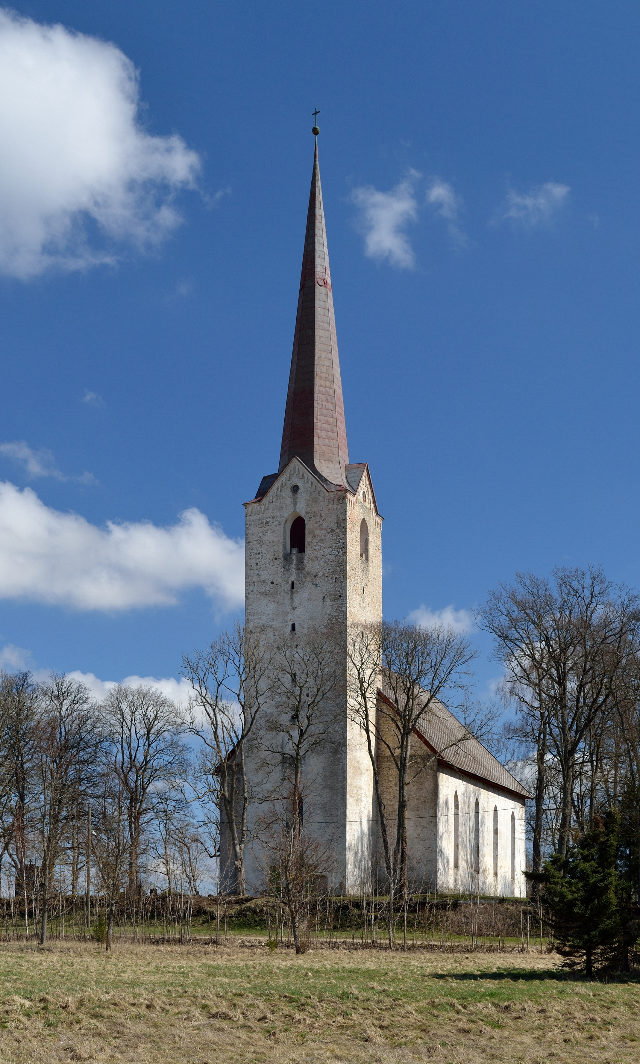 Järva-Peetri church